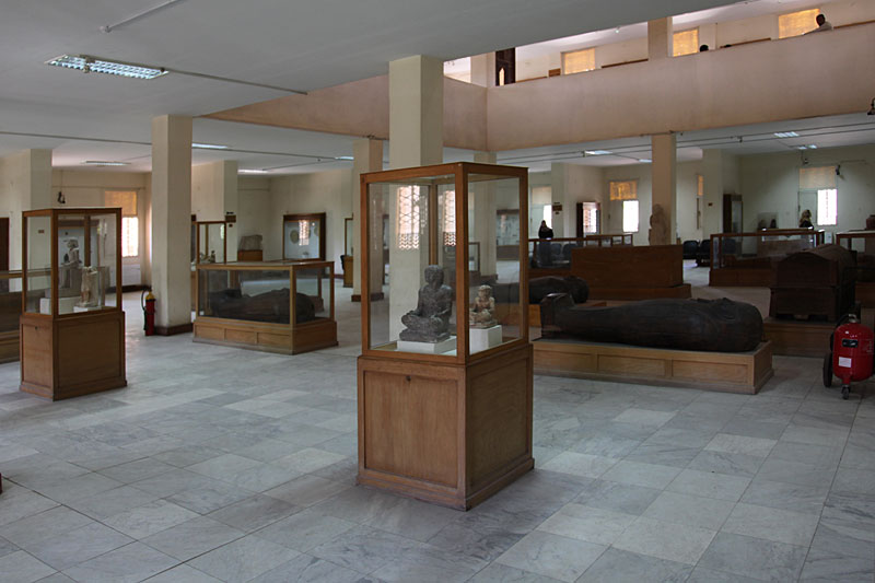 Lower floor hall, museum, Beni Suef, Egypt